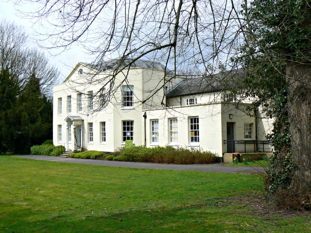 Dacorum Register Office, the Bury, Hemel Hempstead